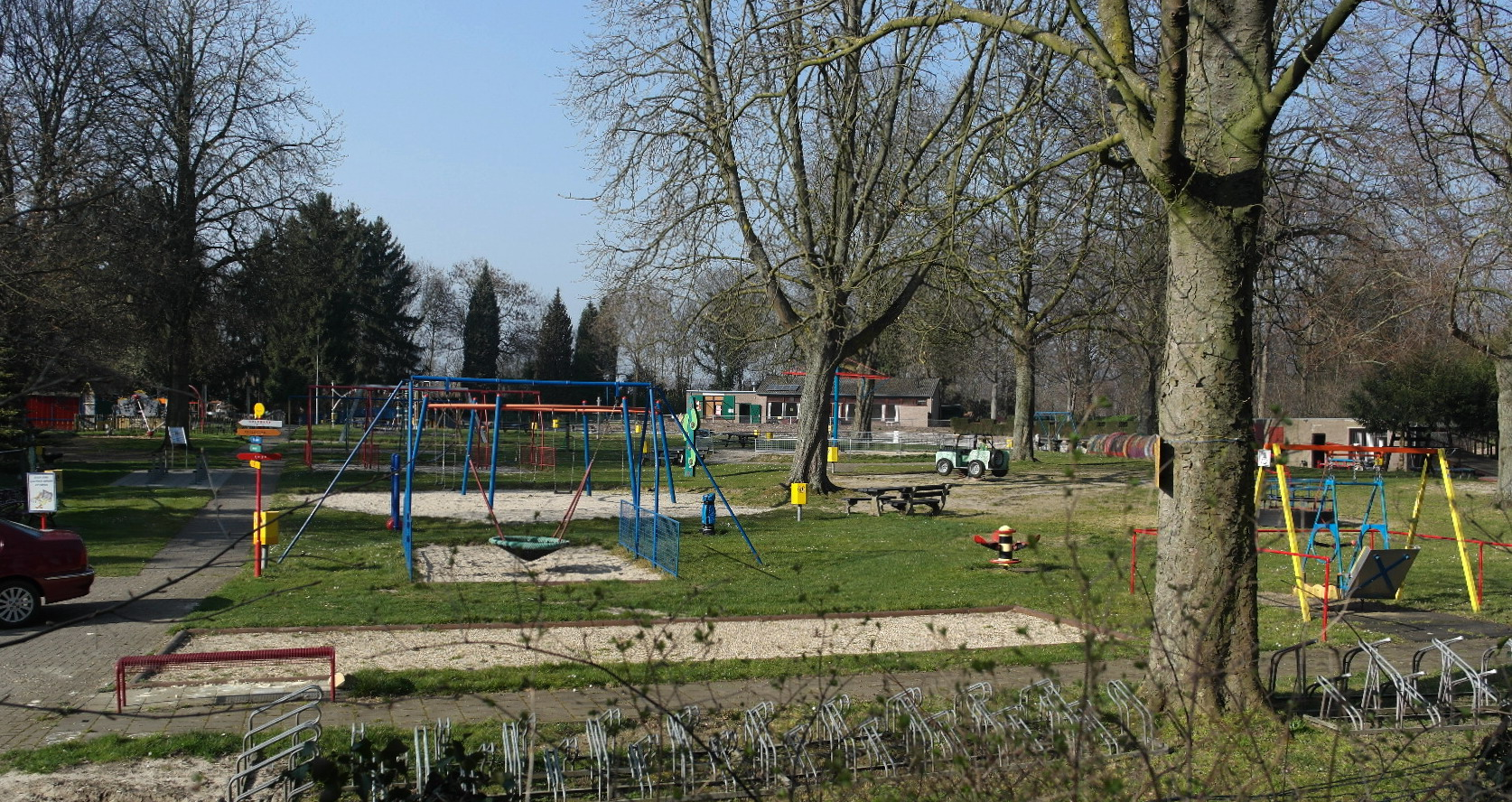 Maastricht, the Netherlands. View of the children's playground on the grounds of the early 19th-century fortress Fort Koning Willem I.